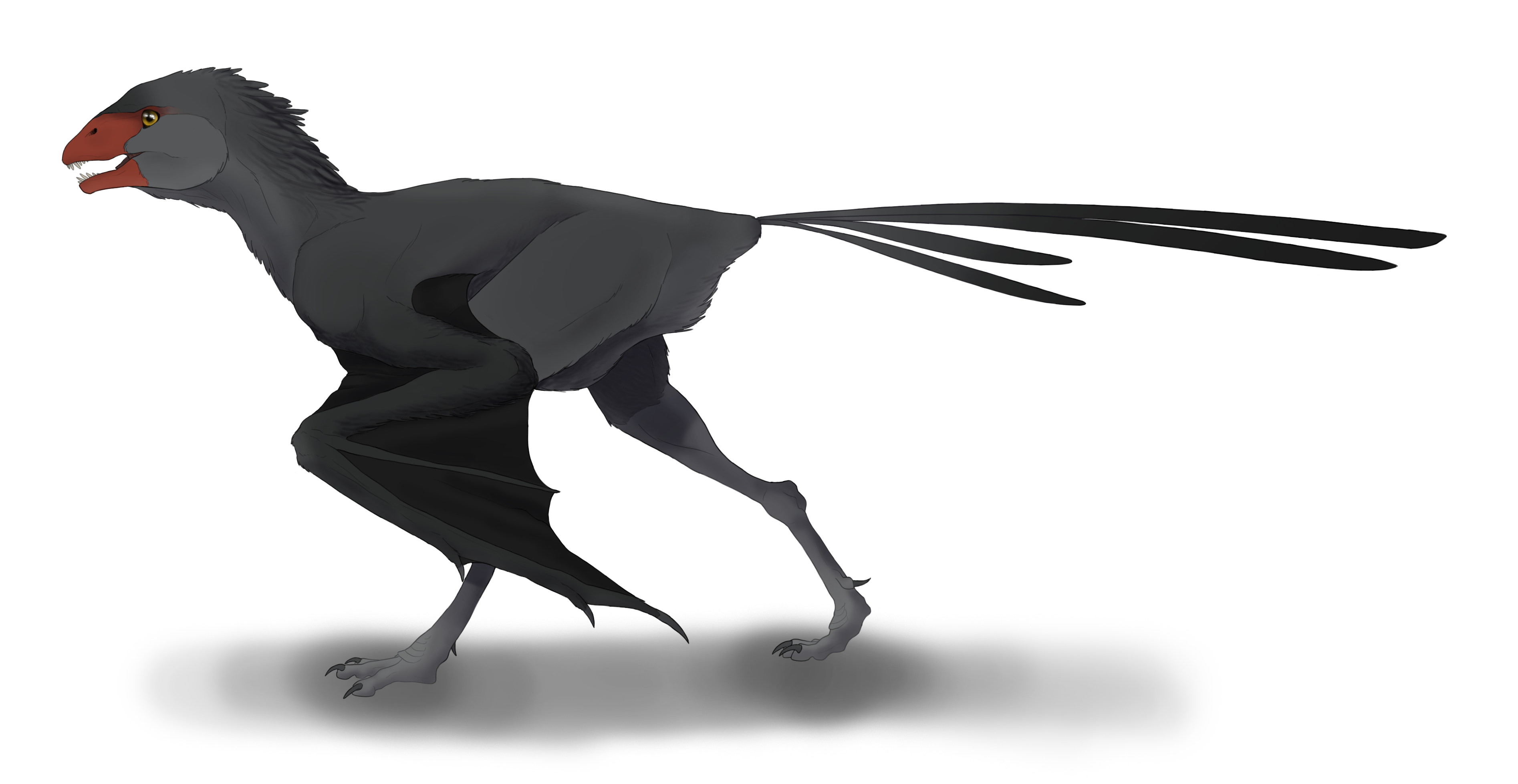 Restoration of Ambopteryx longibrachium based on known fossil elements